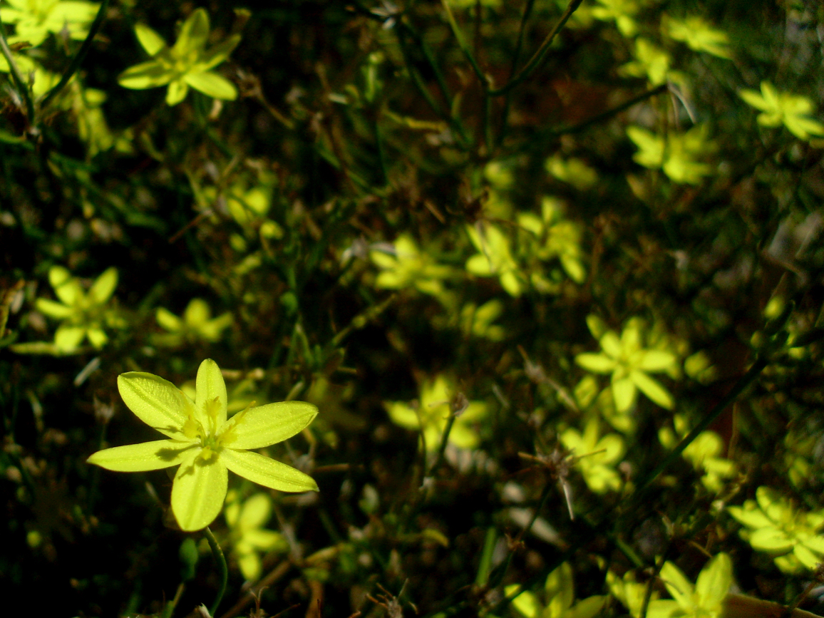 Tricoryne elatior - Yellow Autumn Lily